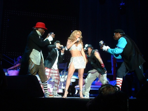 Mariah Carey performing in London (Wembley Arena) on her Charmbracelet Tour in 2003